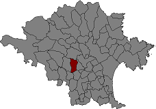 Location of Avinyonet de Puigventós in Alt Empordà